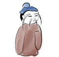 This person is Confucius